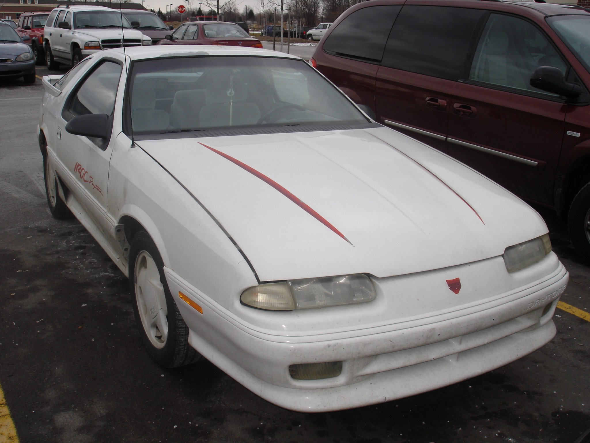 1993 Chrysler Daytona